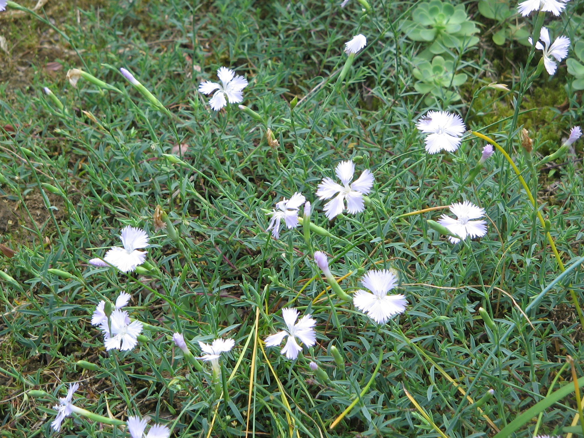 Dianthus gallicus in cultivation